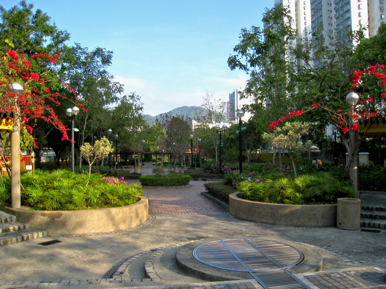 小瀝源路遊樂場 Siu Lek Yuen Road Playground